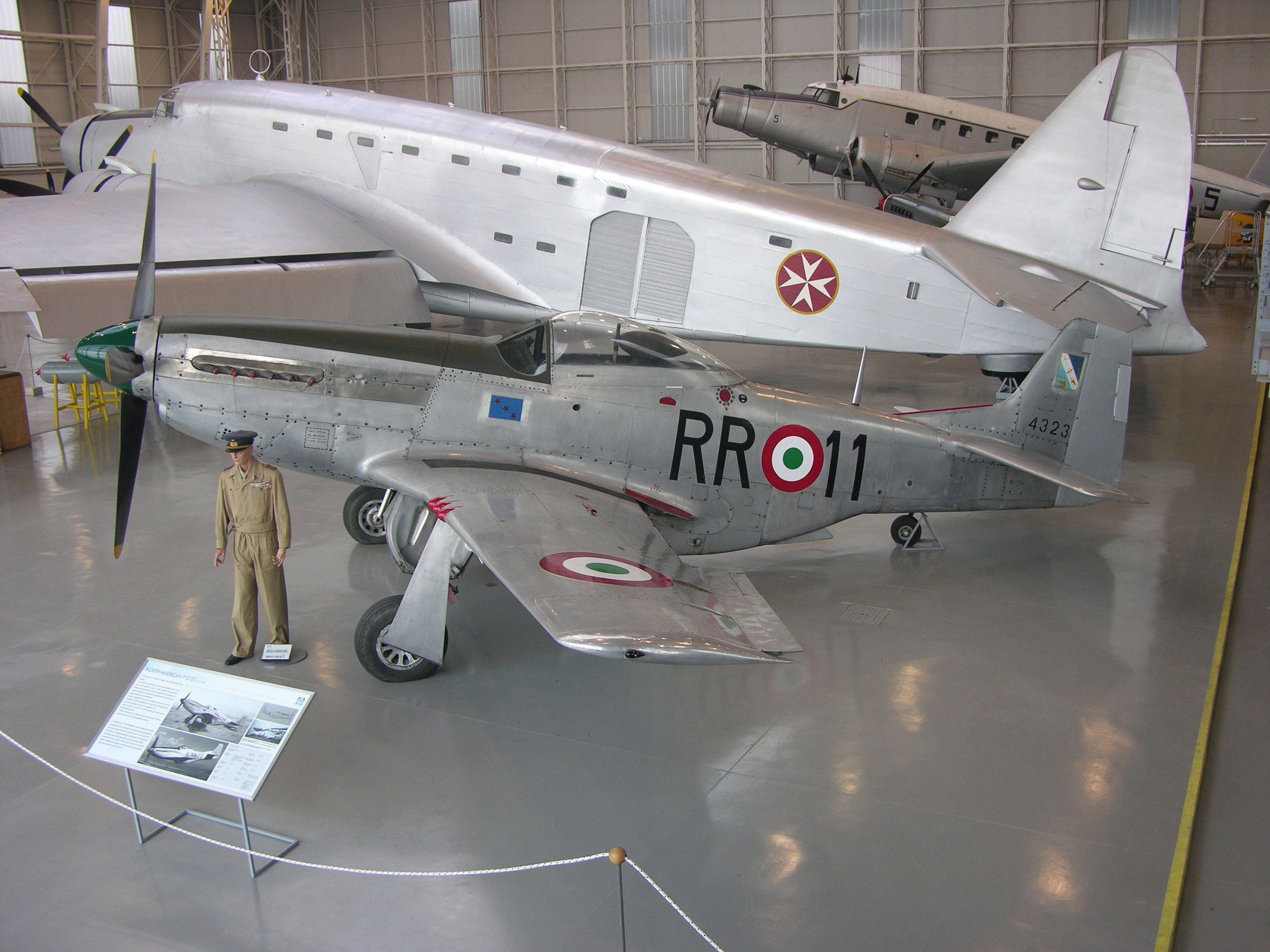 A North American P-51D Mustang, a Savoia-Marchetti SM.82 Marsupiale and a Fiat G.212 (in the background) exhibited at the museum of Vigna di Valle.